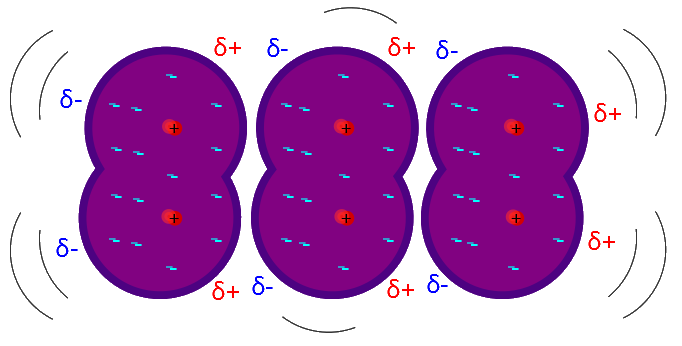 Induced-dipoles in iodine. (London dispersion forces).